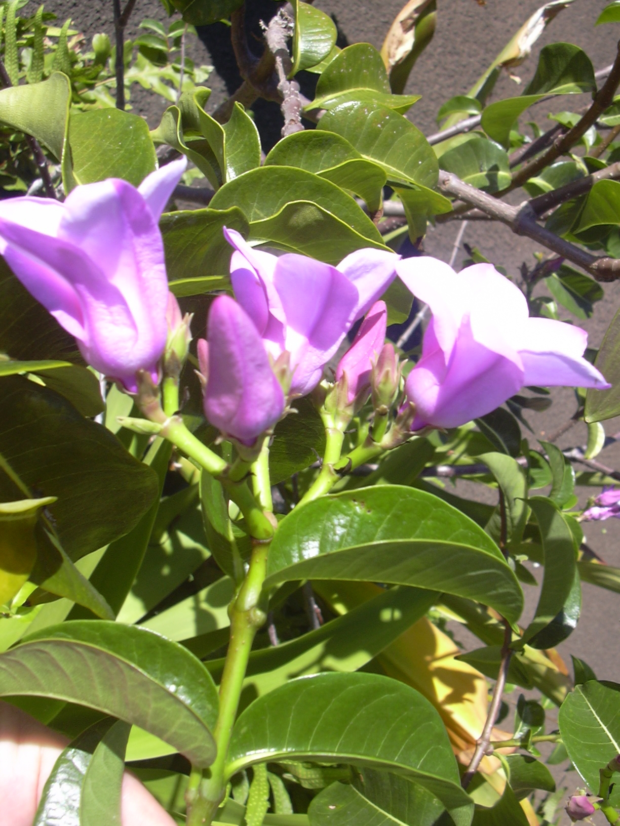 Cryptostegia sp. (flowers). Location: Oahu, Bishop Museum